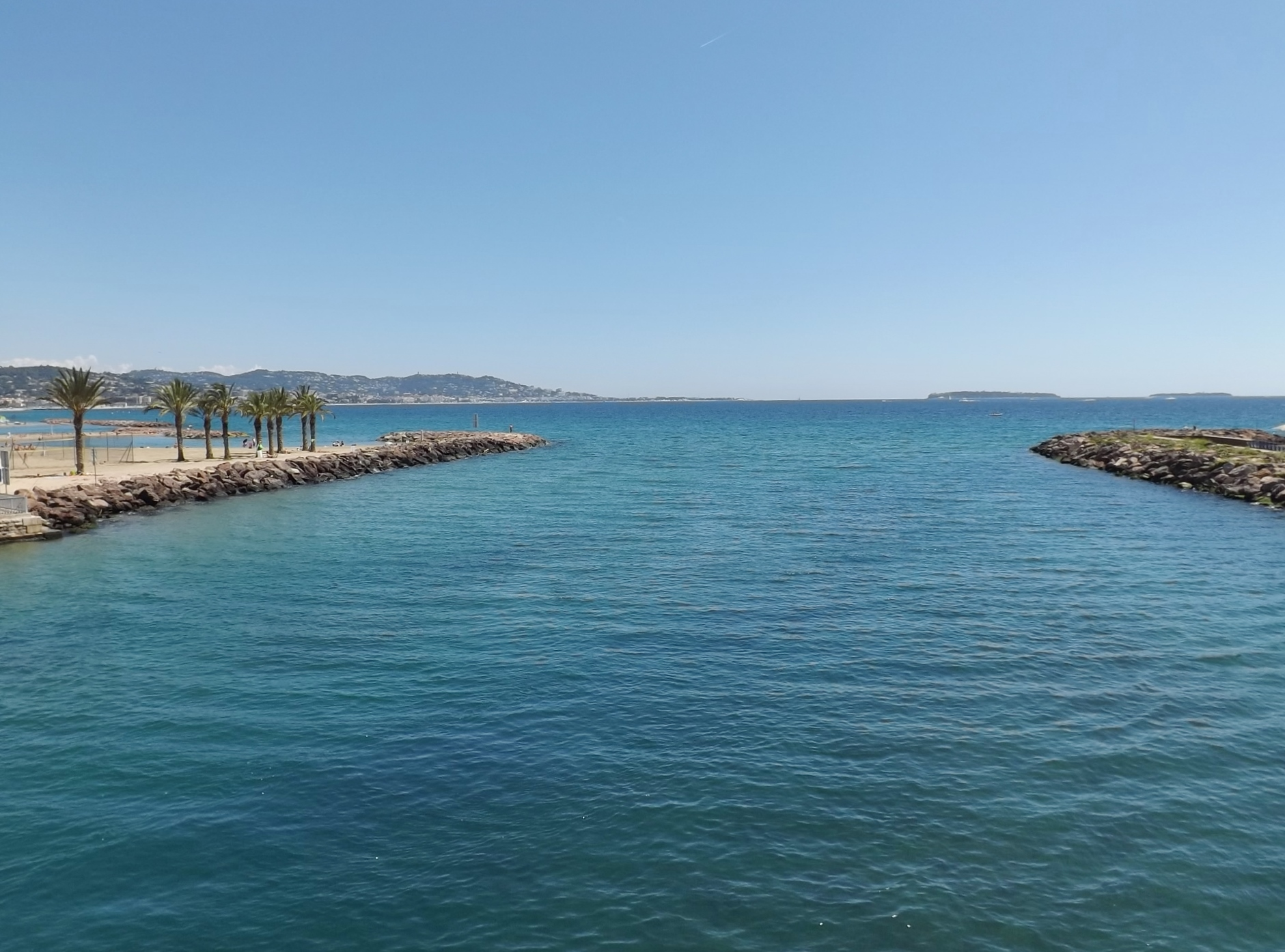 Sight of the river Siagne flowing into the Mediterranean sea on the French commune of Mandelieu-la-Napoule in Alpes-Maritimes.